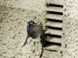 A Blue Tit (Parus caeruleus) approaching its nest behind a vent grille to feed the chicks.